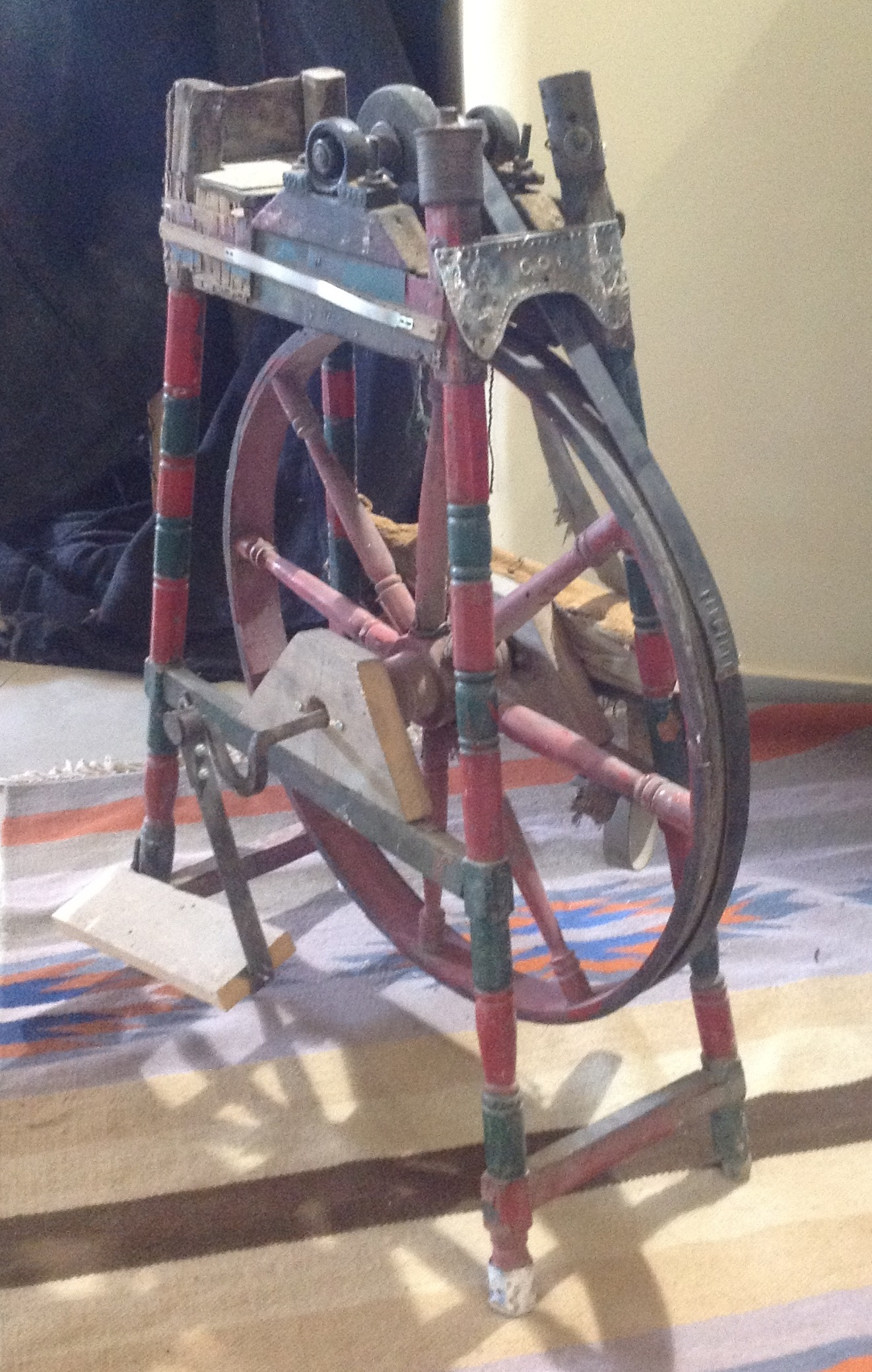 Manual Grinding Wheel عجلة تجليخ يدوية قديمة